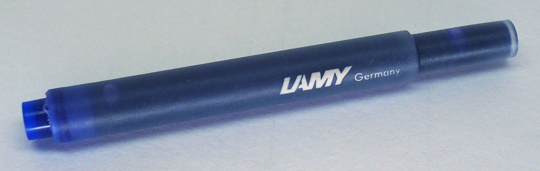 Lamy T 10 proprietary ink cartridge containing approximately 1.15 ml ink for fountain pens. The rim behind the lettering is used as a shape connection to provide correct positioning inside the pen. With the help of a syringe a cartridge can be refilled with any bottled ink suitable for fountain pens.